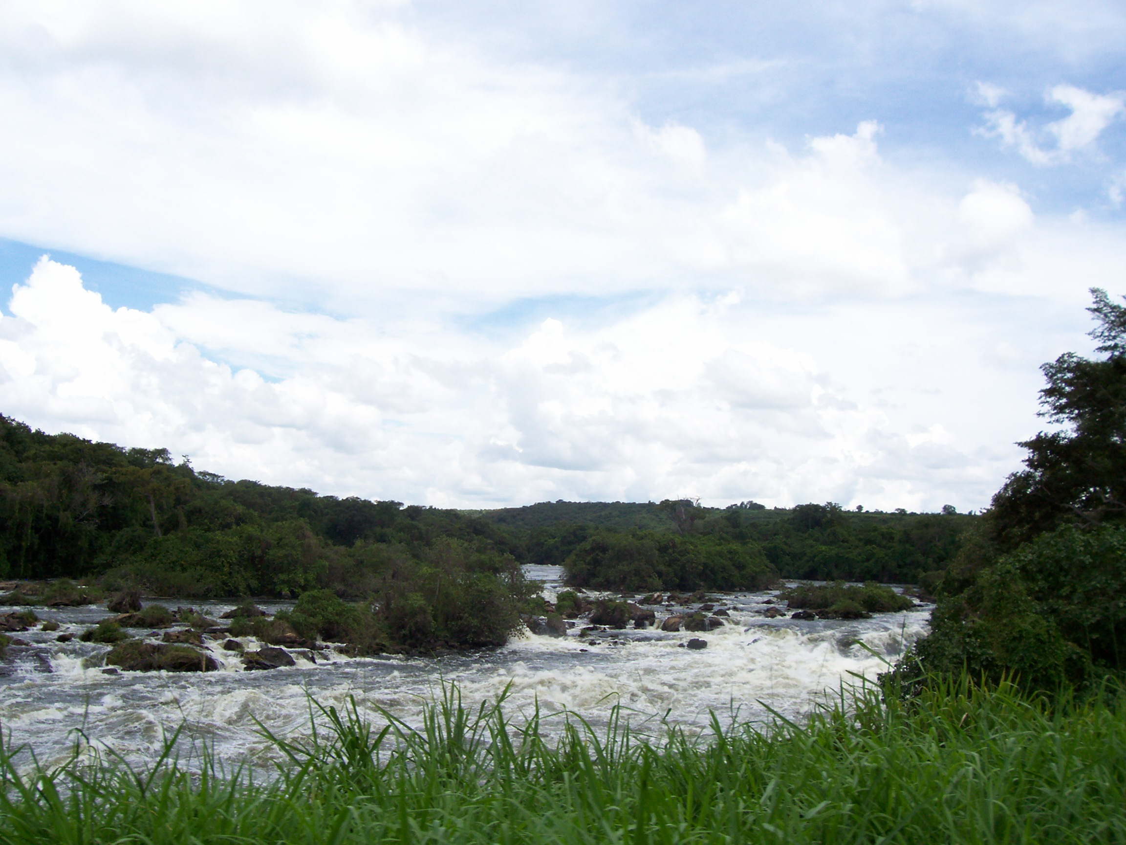 This is a picture of the nile as it appears in Uganda.